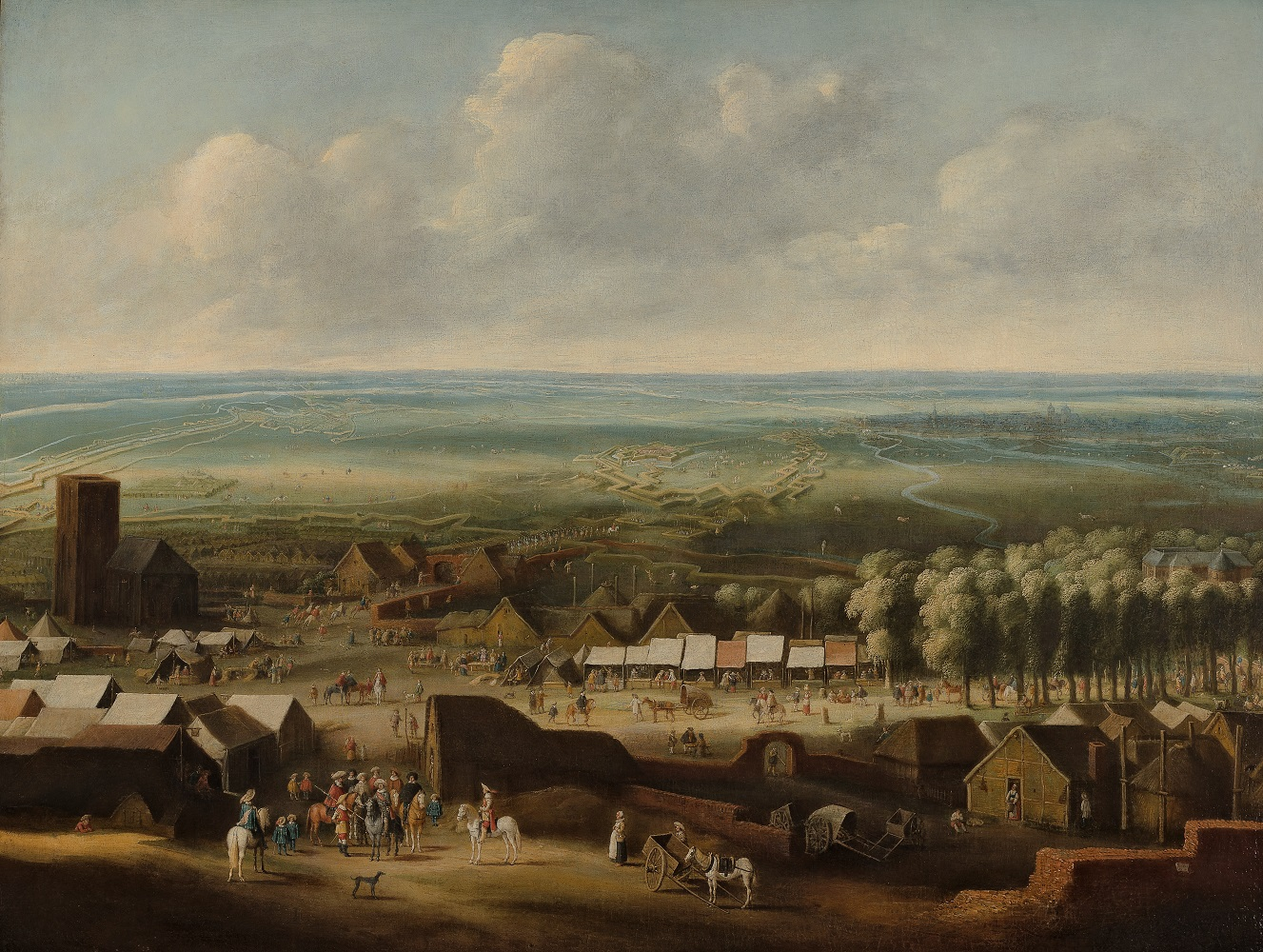 siege of 's-Hertogenbosch 1629